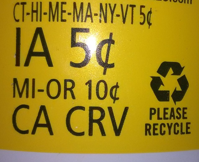 Bottle redemption value/deposit label on a 1 liter soft drink purchased in the United States showing the state abbreviations where redemption is applicable.